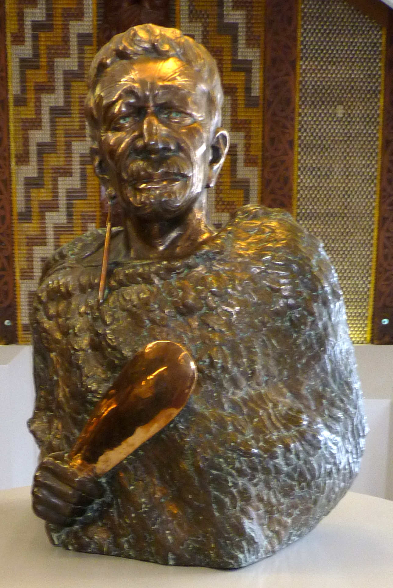 Te Heuheu Tūkino IV, statue in Tongariro National Park Visitor Centre, New Zealand